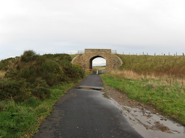 Dismantled Railway, Strathlene The bridge spans the former Moray Coast Railway adjacent to Strathlene Golf Course. The line lies to the east of the former Portessie Station. It is now part of a coastal trail.